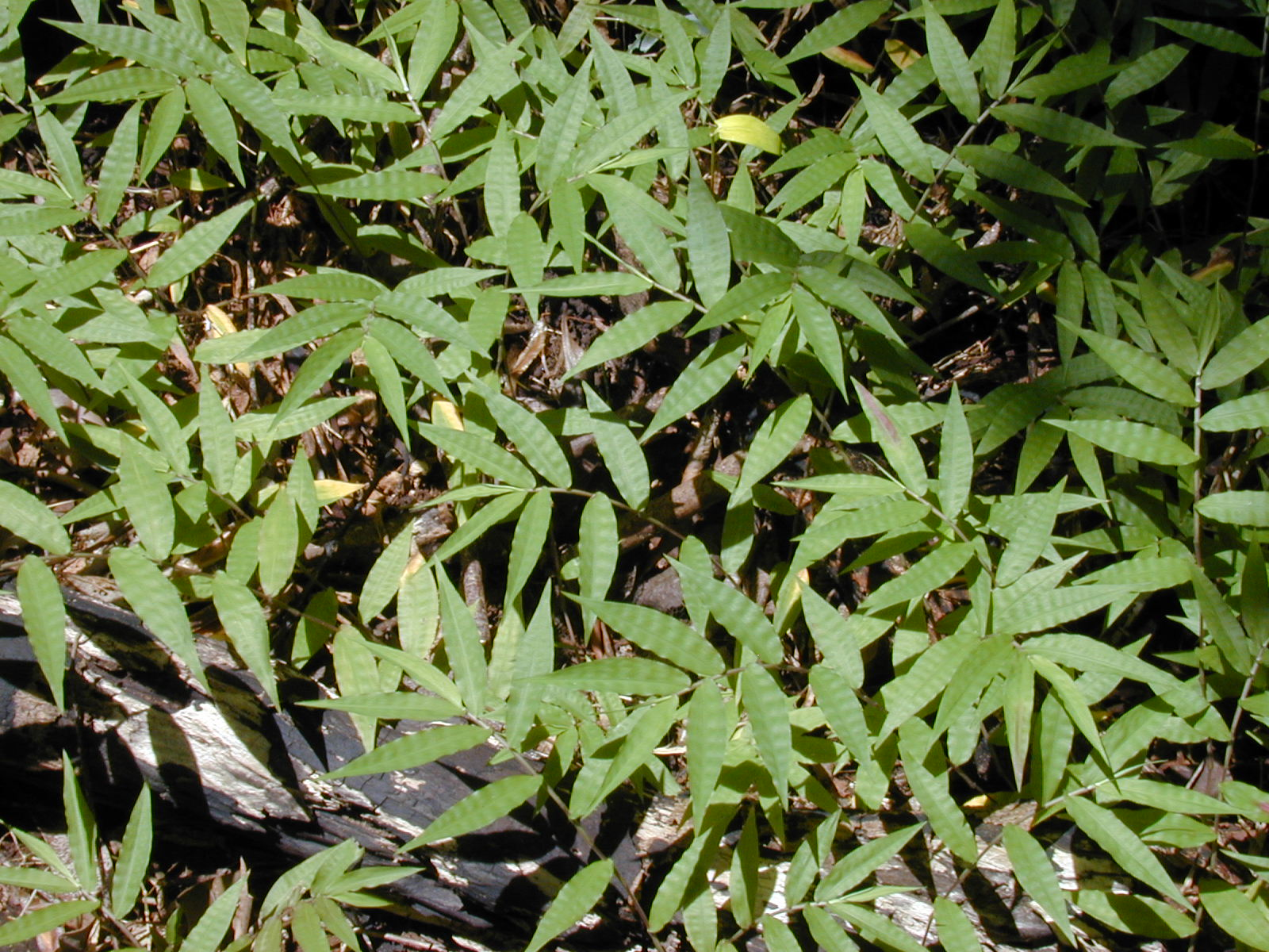 Oplismenus hirtellus (habit). Location: Maui, Waihee Ridge Trail